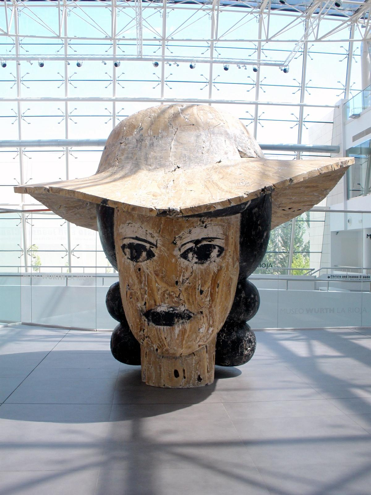 'Lillie' (2006), de Manolo Valdés, obra emblemática de la colección del Museo Würth La Rioja (Agoncillo, La Rioja, España)